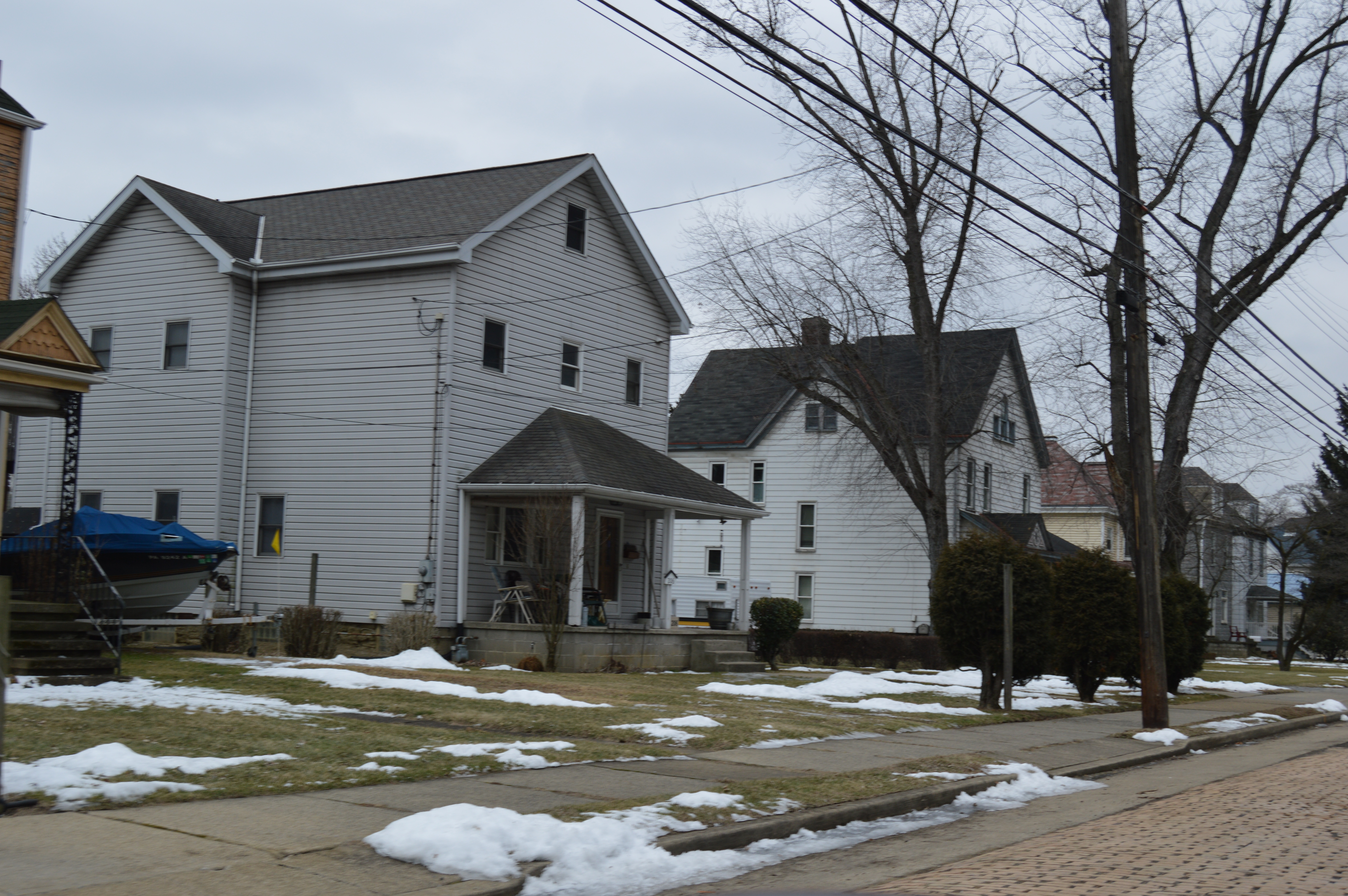 Houses on the southern side of Beaver Street in Glenfield, Pennsylvania, United States.